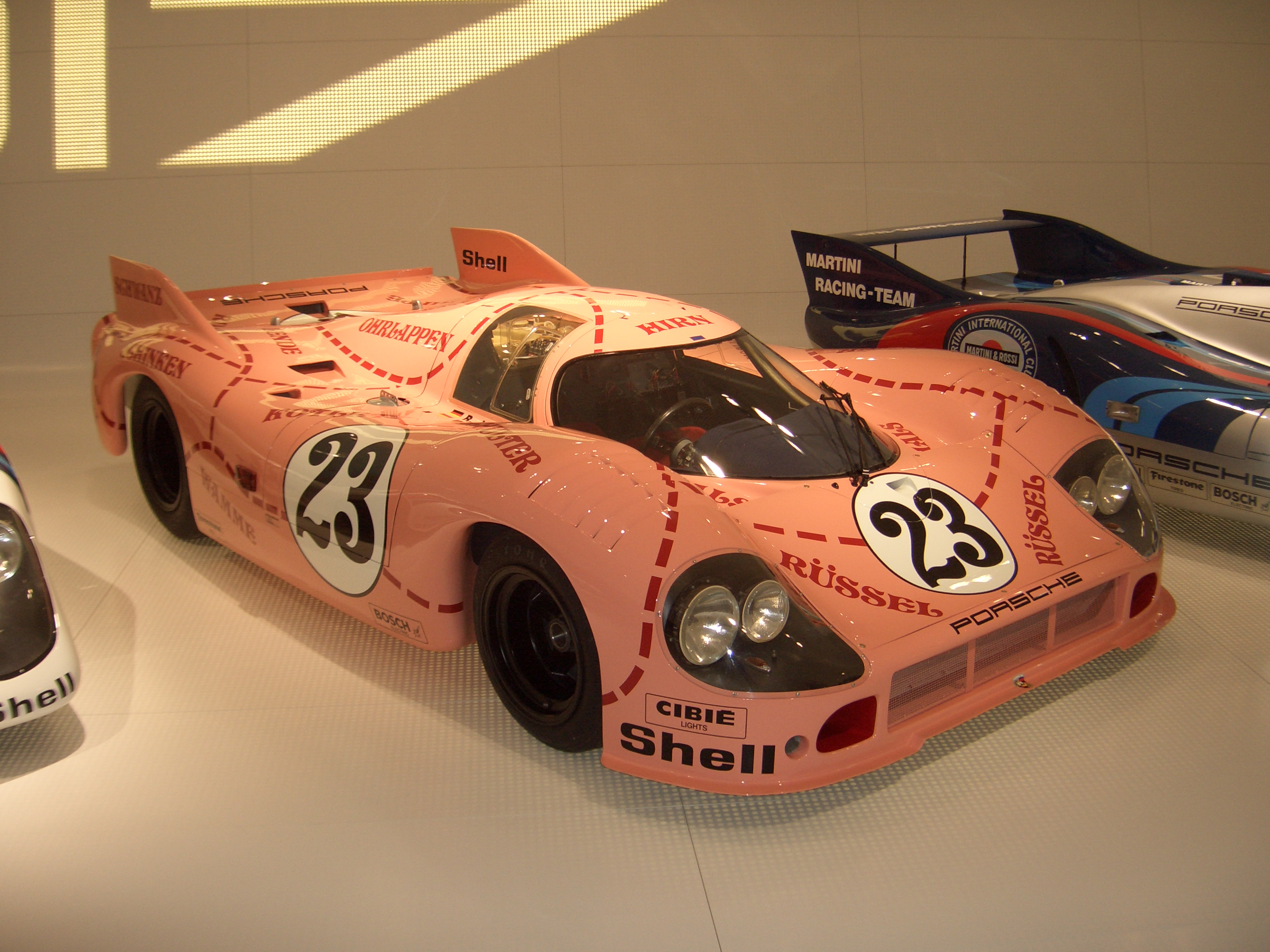 see filename for despcription - seen at PORSCHE MUSEUM in Stuttgart, Germany